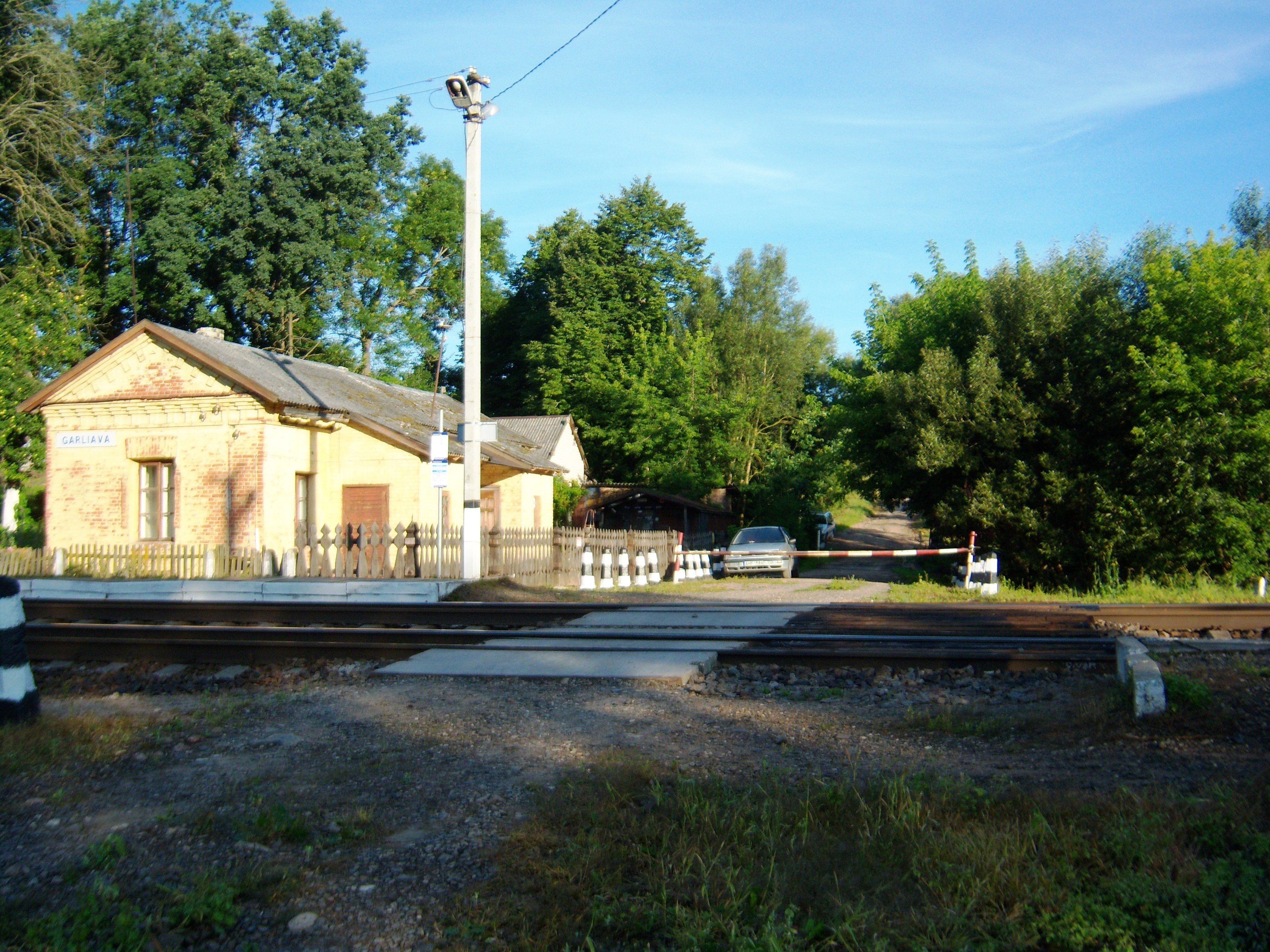 Garliava train stop, Kaunas district. Lithuania